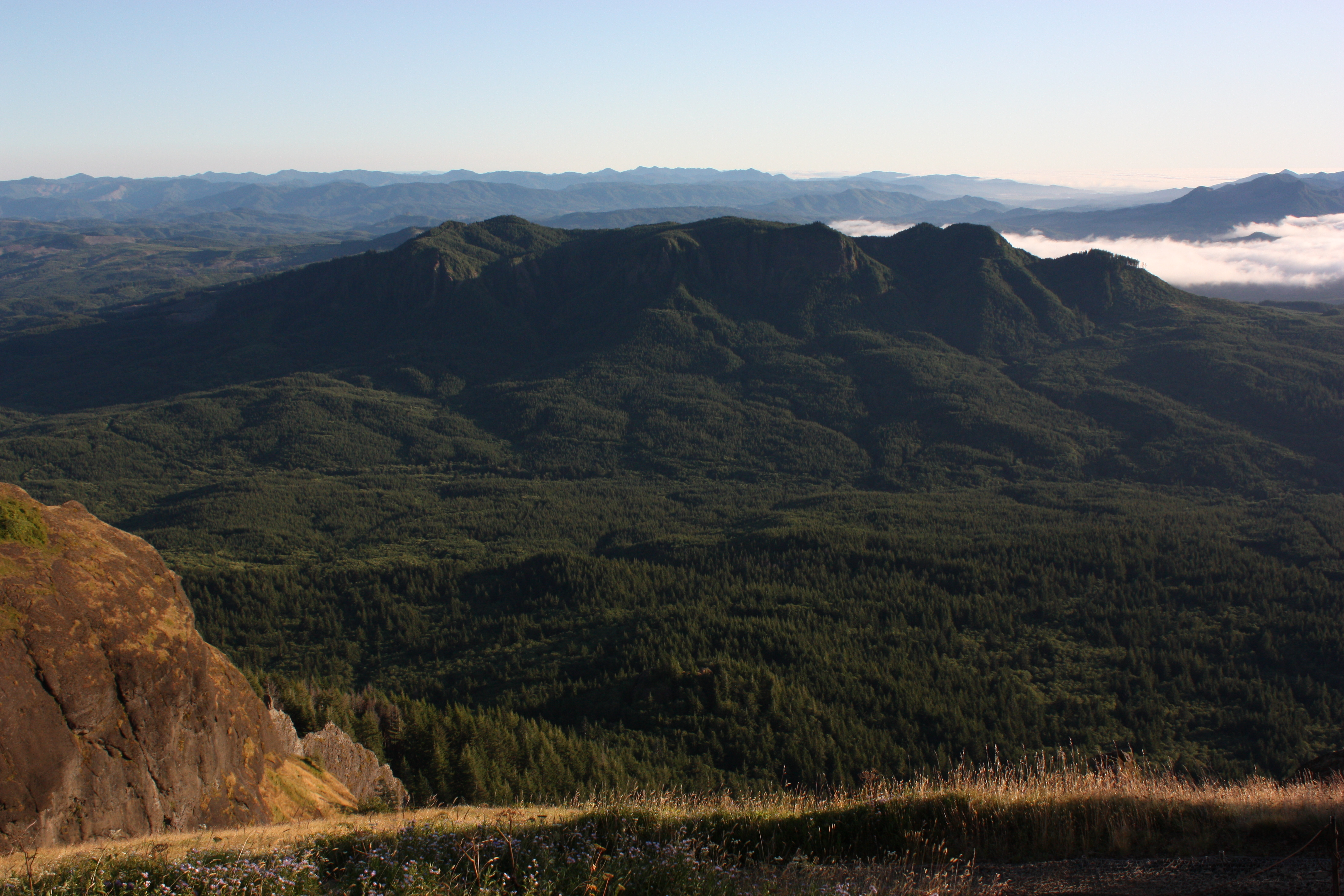 Lewis and Clark River Valley (foreground); Humbug Mountain (747 m, 2452 feet, middle distance)